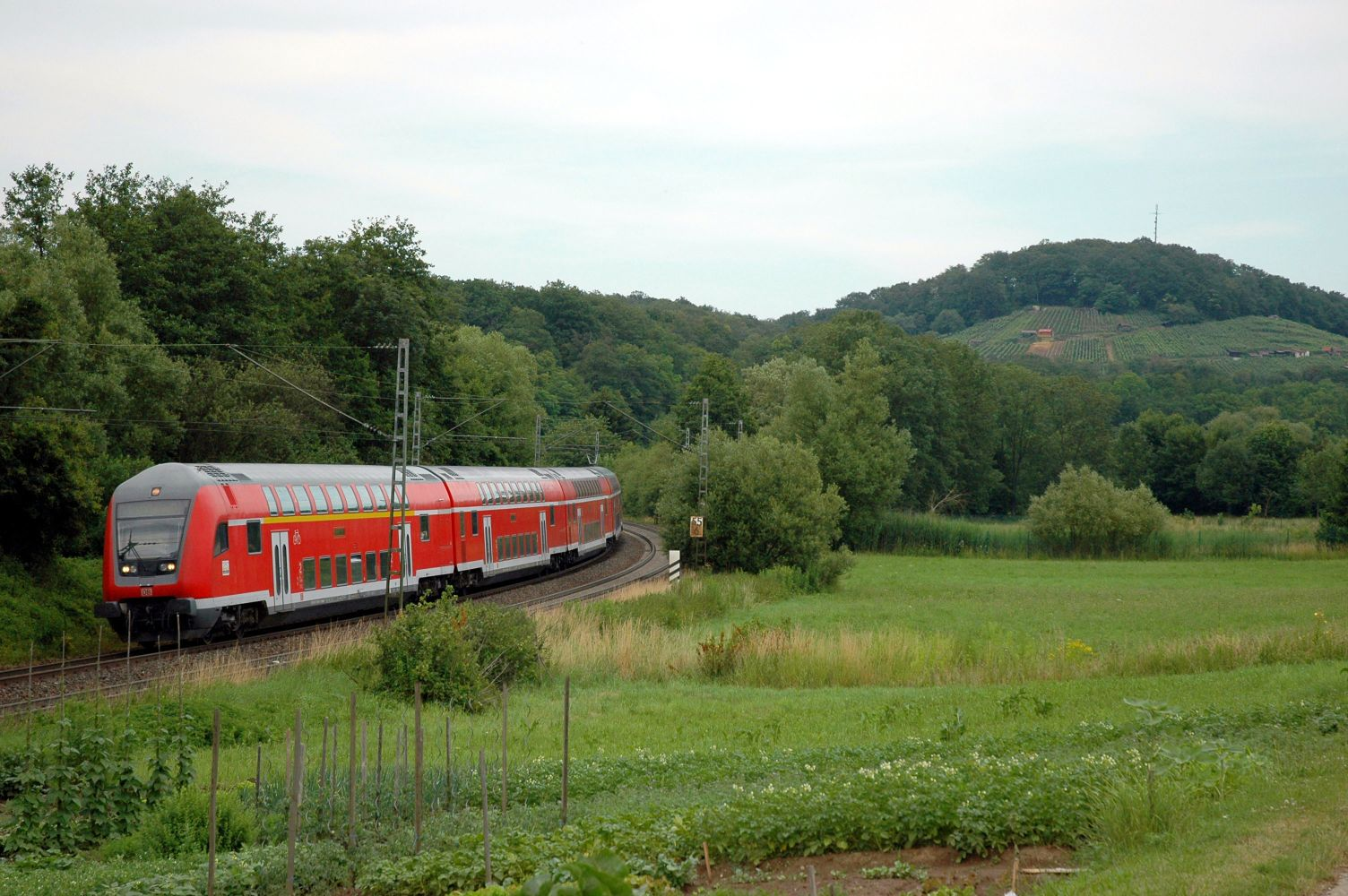 RegionalExpress train from Stuttgart to Heidelberg passing Ölbronn with the Aschberg, train number RE 19514.